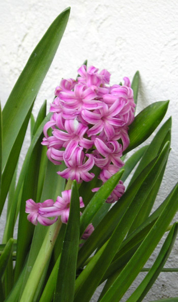 Hyacinthus sp.